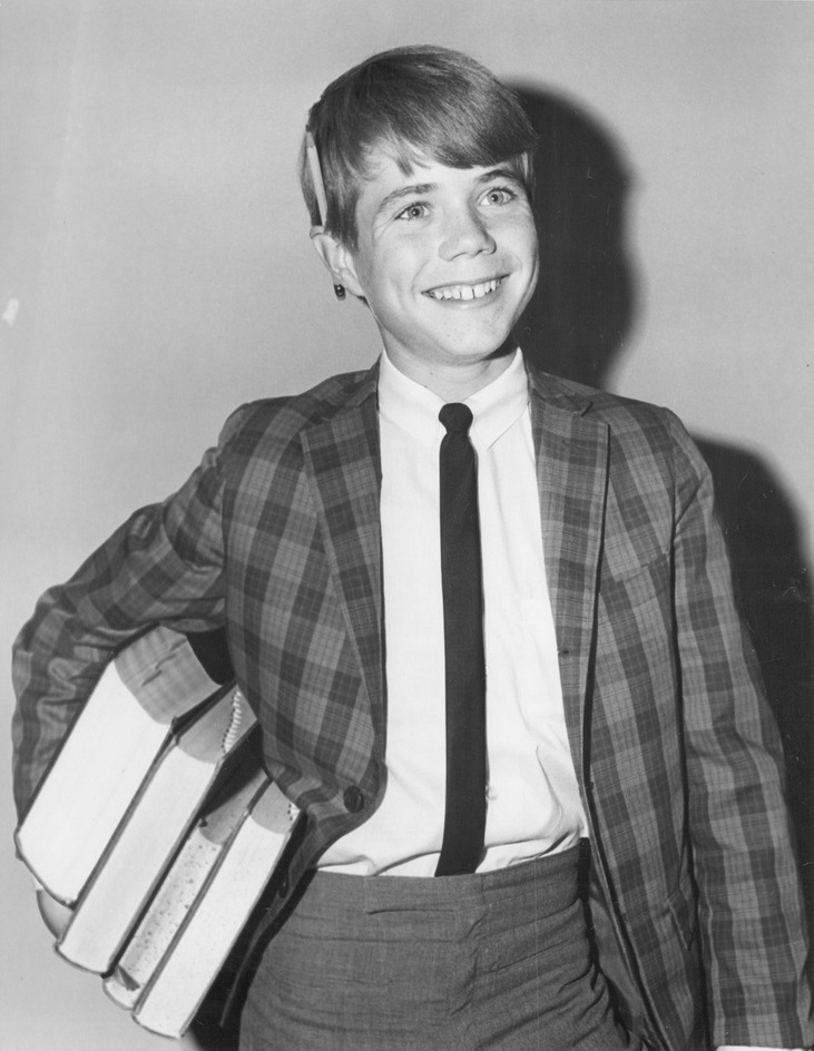 Publicity photo of teen actor Jon Provost in 1964.